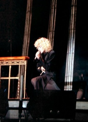 Photo taken during of the concerts in 1990